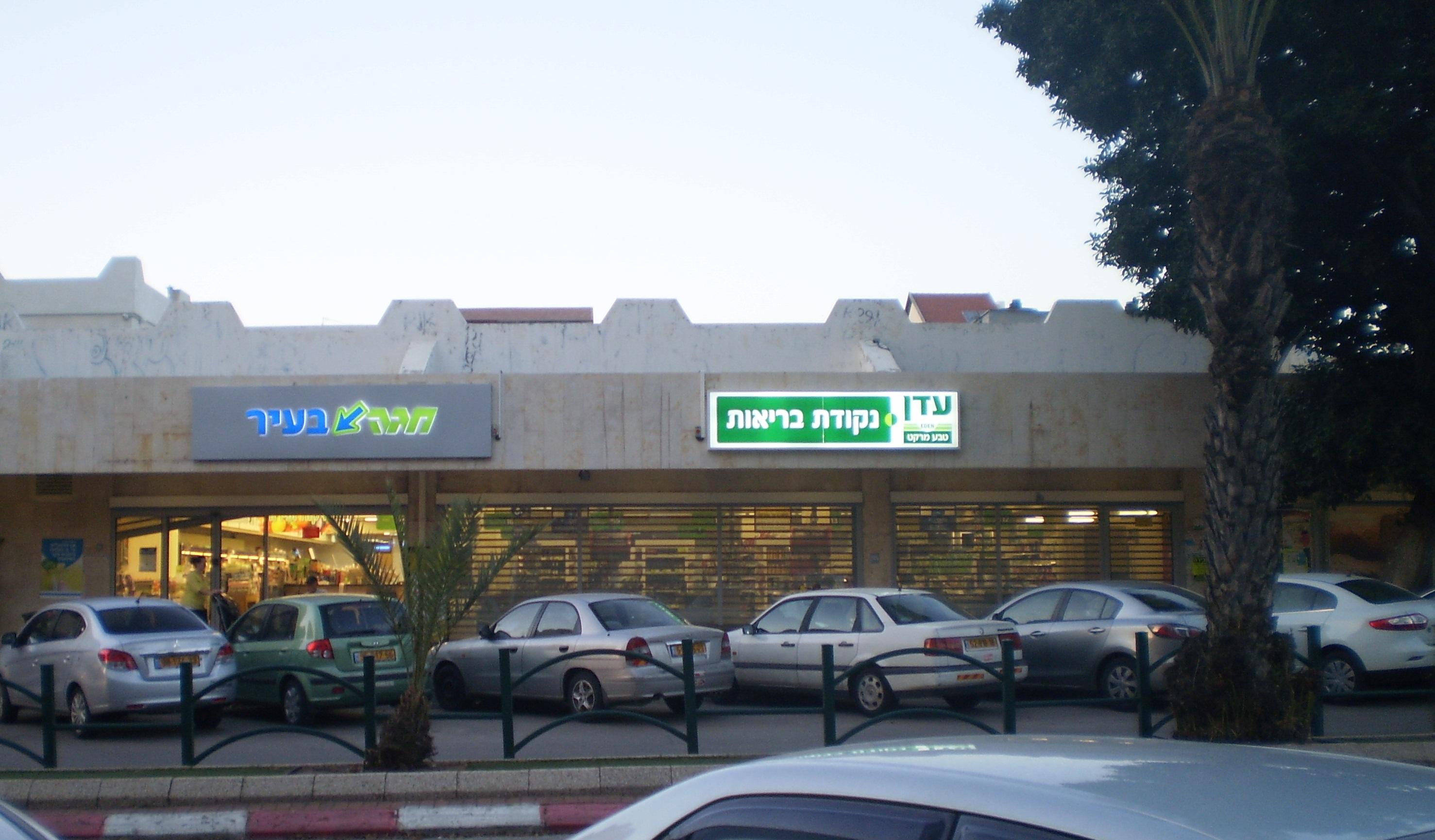 Mega and Eden Tevamarket supermarket